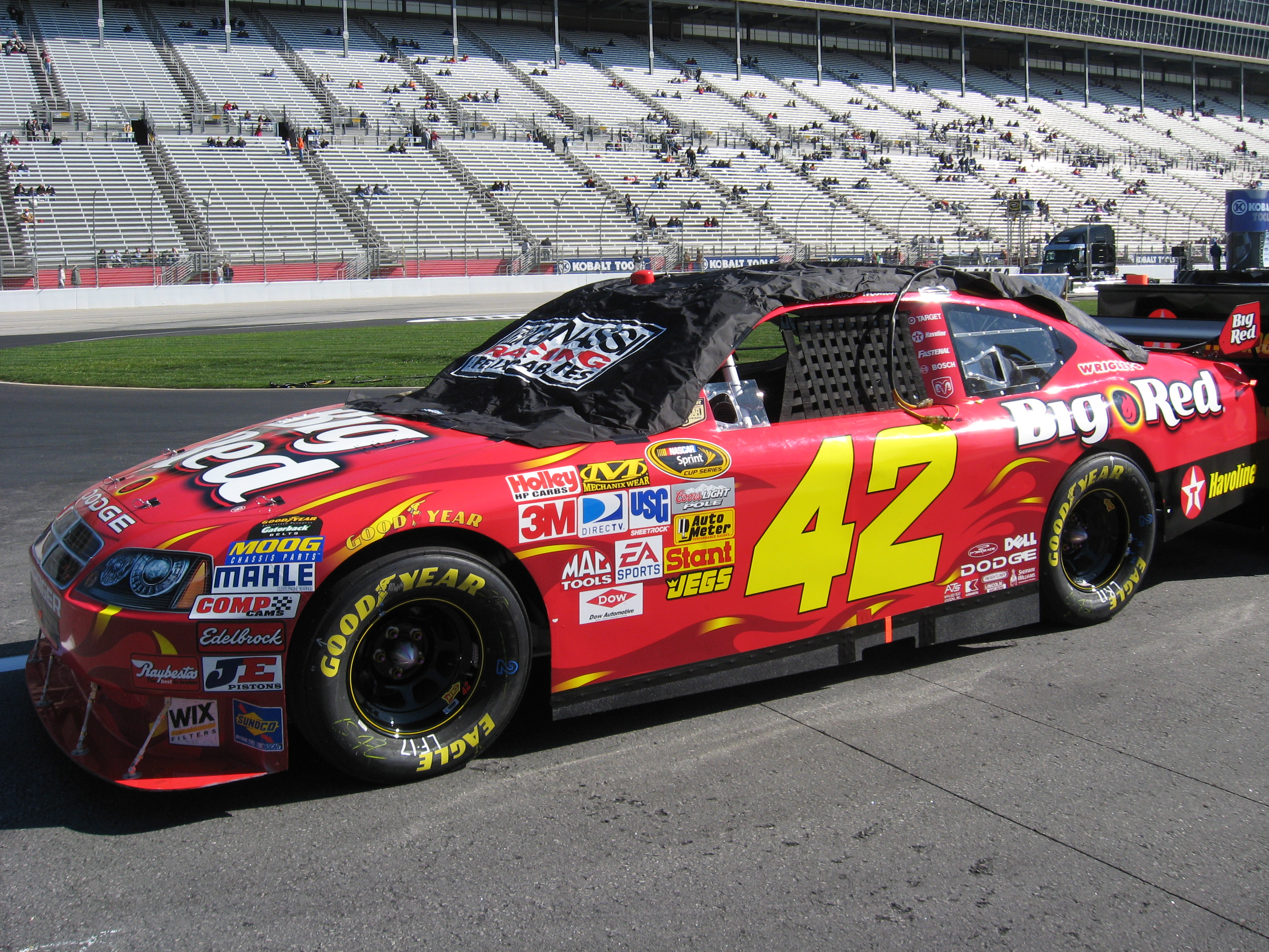 Juan Pablo Montoya's No. 42 Big Red Dodge on the grid at Atlanta Motor Speedway for the 2008 Kobalt Tools 500.